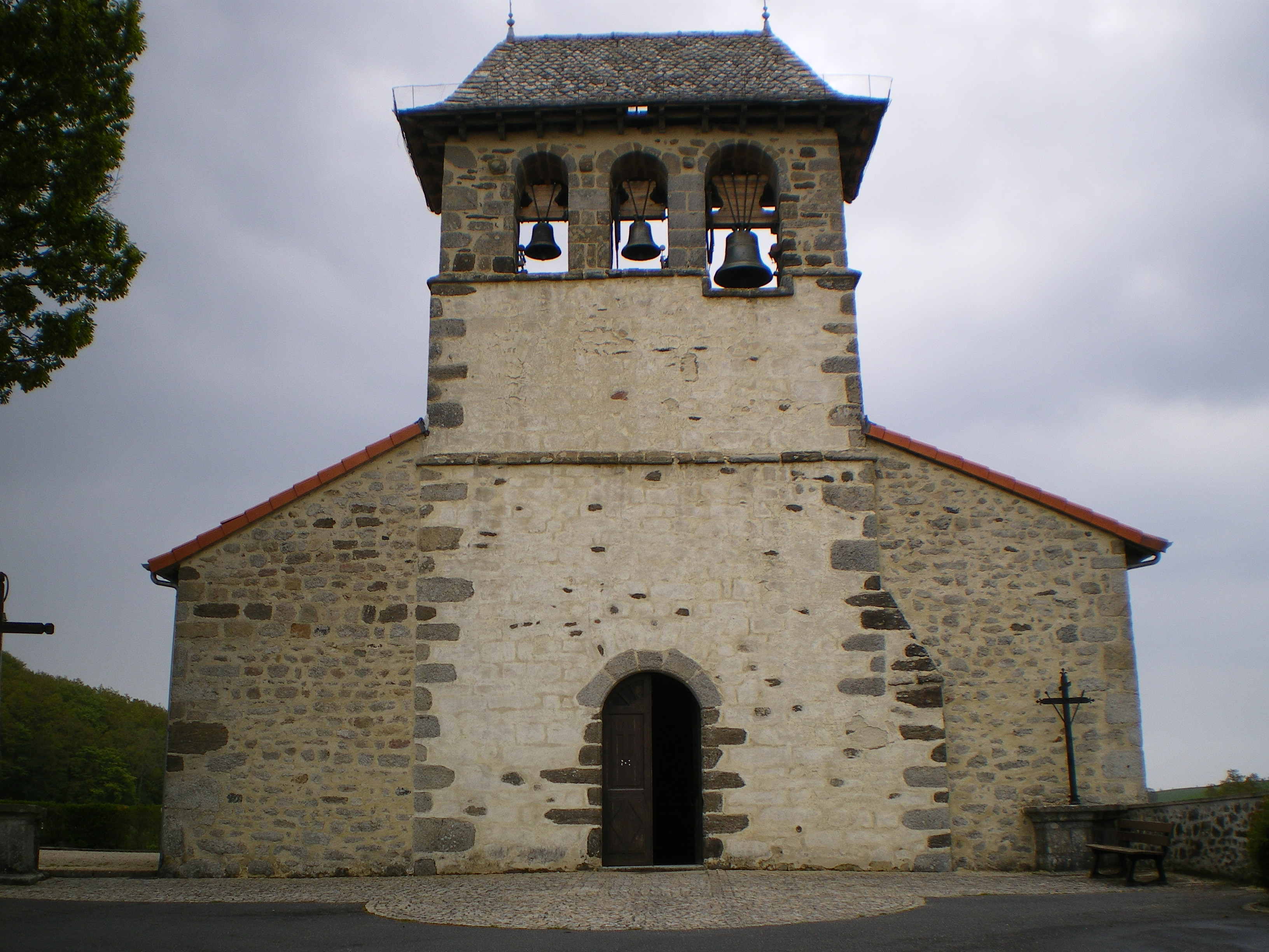 Saint-Saury church, Cantal, France